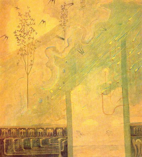 Painting Scherzo (part three) in four-painting cycle Pavasario sonata (Sonata of Spring).